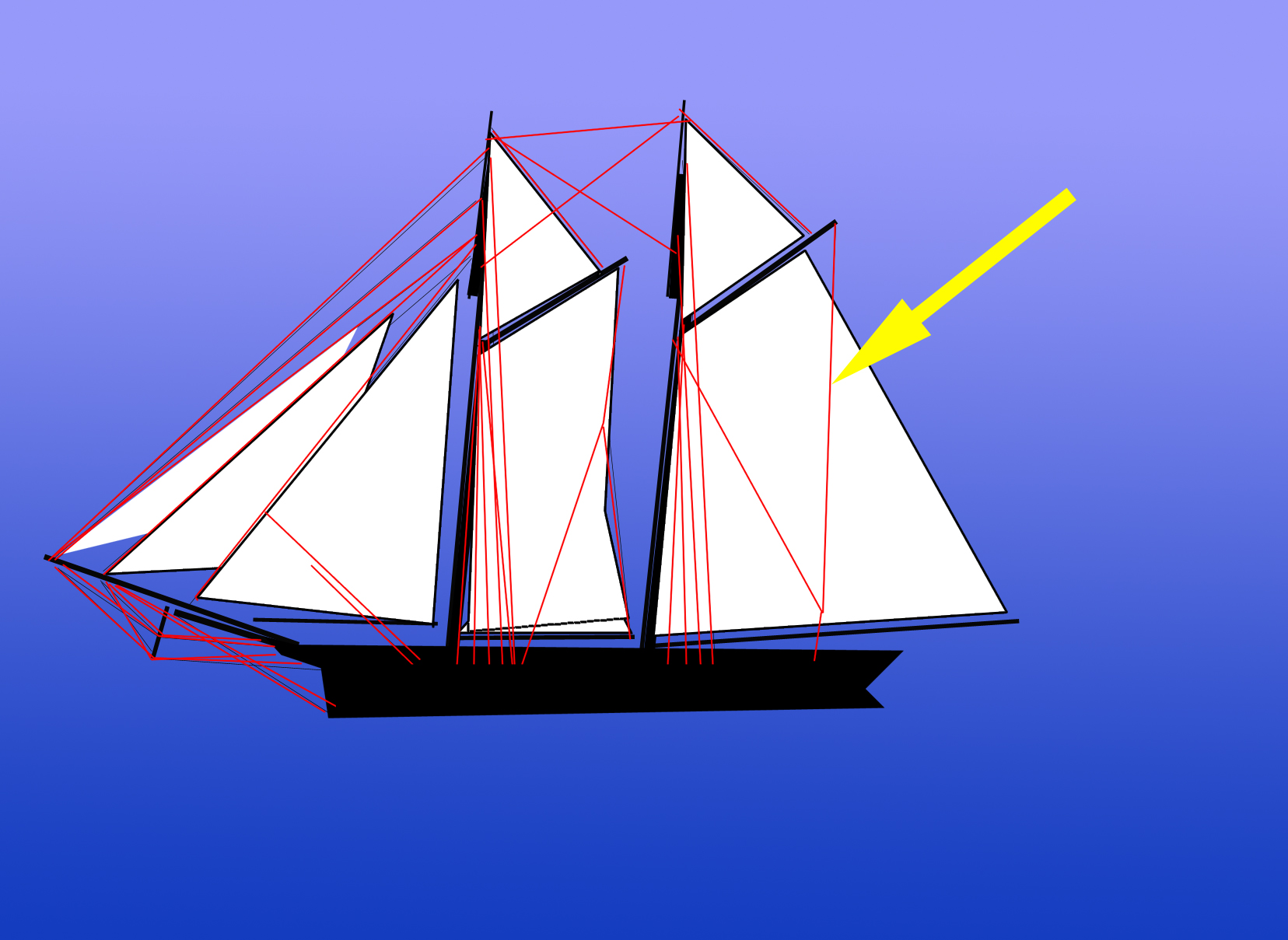 Diagram of a two-masted schooner showing its rigging in red.